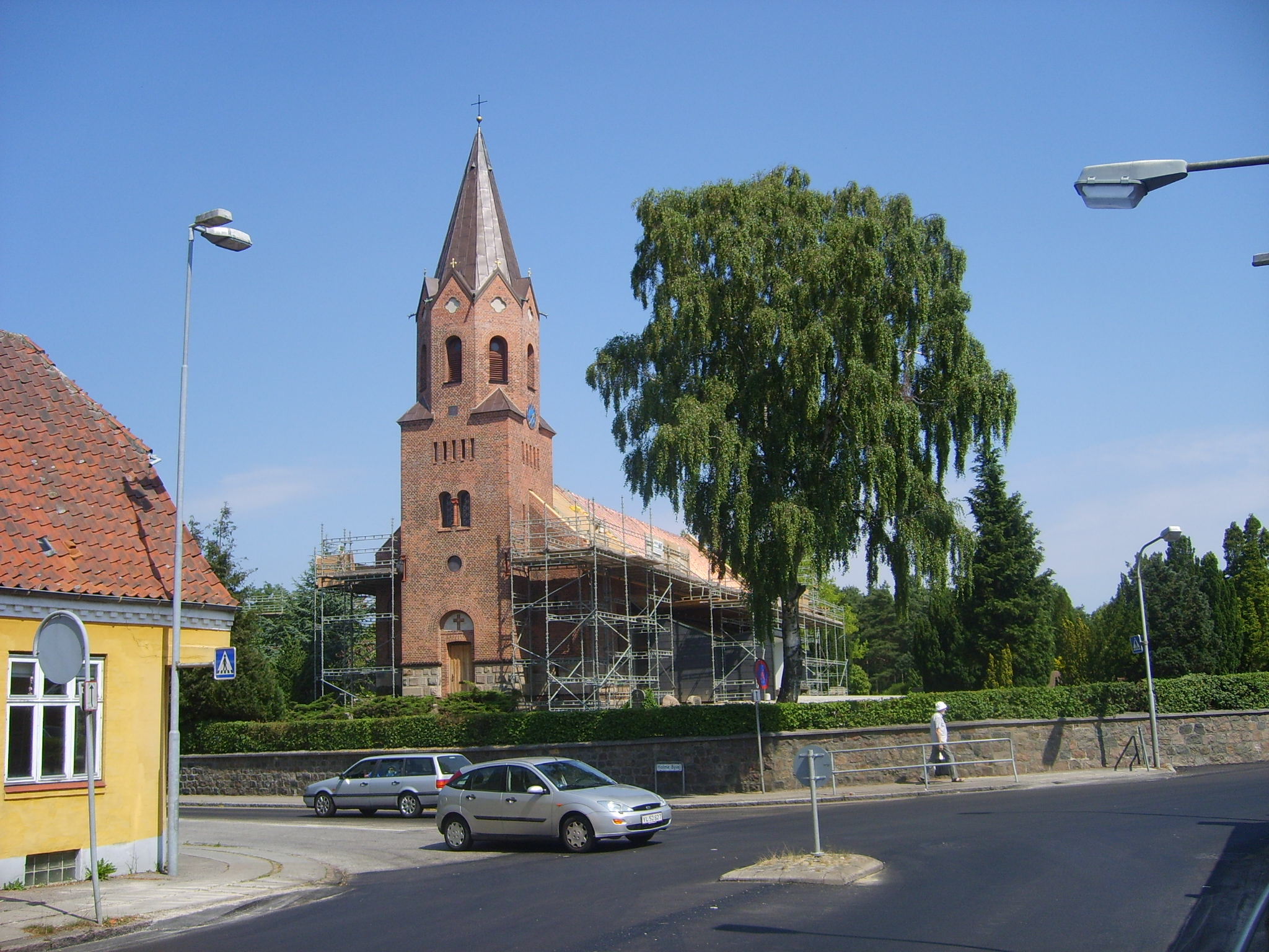 Church in Holme, a suburb of Århus in Denmark.